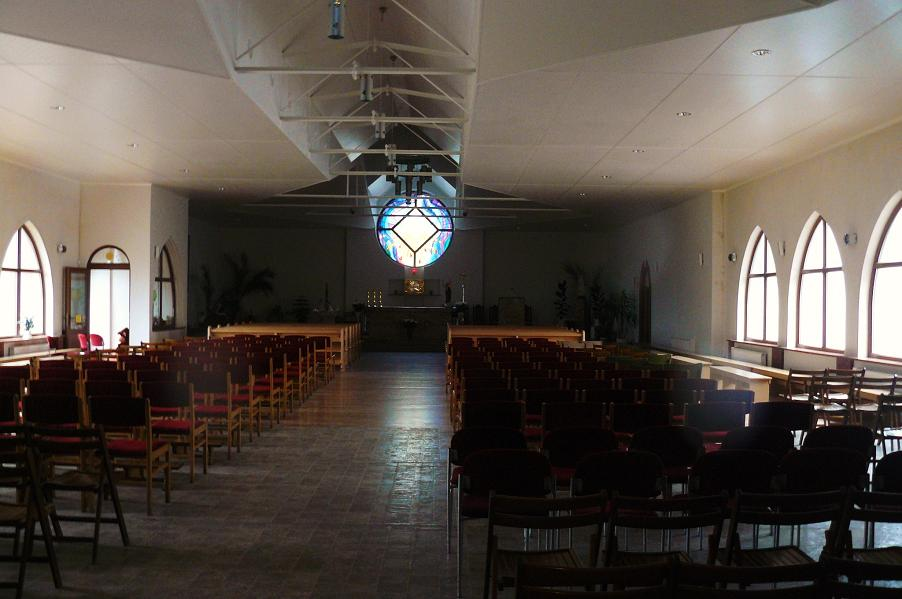 Interior of St. Martin Church in Kołobrzeg, Poland.